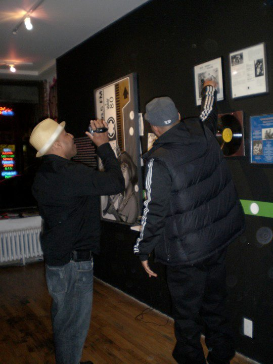 Jel (chris jackson) & MC B (carl badwa) with Get Loose Crew Album T-Dot Pioneers Exhibit